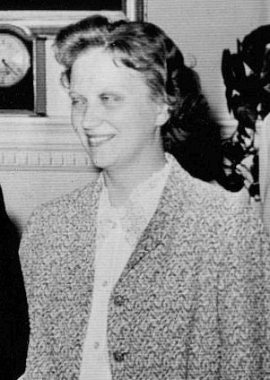 Photo of Nelson Rockefeller (then the Governor of New York) calling on Soviet Premier Nikita Khrushchev and his family, who were visiting the United States. The Khrushchevs were staying at the Waldorf-Astoria in New York. From left-Mrs. Khrushchev (Nina), the Soviet Ambassador to the US, Mikhail Manishikov, Nelson Rockefeller, Premier Khrushchev, Rada Khrushchev (daughter) and Sergei Khrushchev (son).